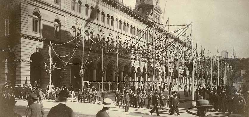 Post Office at Martin Place, Sydney Dated: c. 1901 Digital ID: 4346_a020_a020000047 Rights: We'd love to hear from you if you use our photos. Many other photos in our collection are available to view and browse on our website using Photo Investigator.